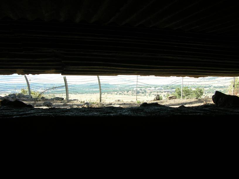 Tel Faher, former Syrian bunker with excellent view of Upper Galilee, was used in the 1960's to shell the farmers working in their fields